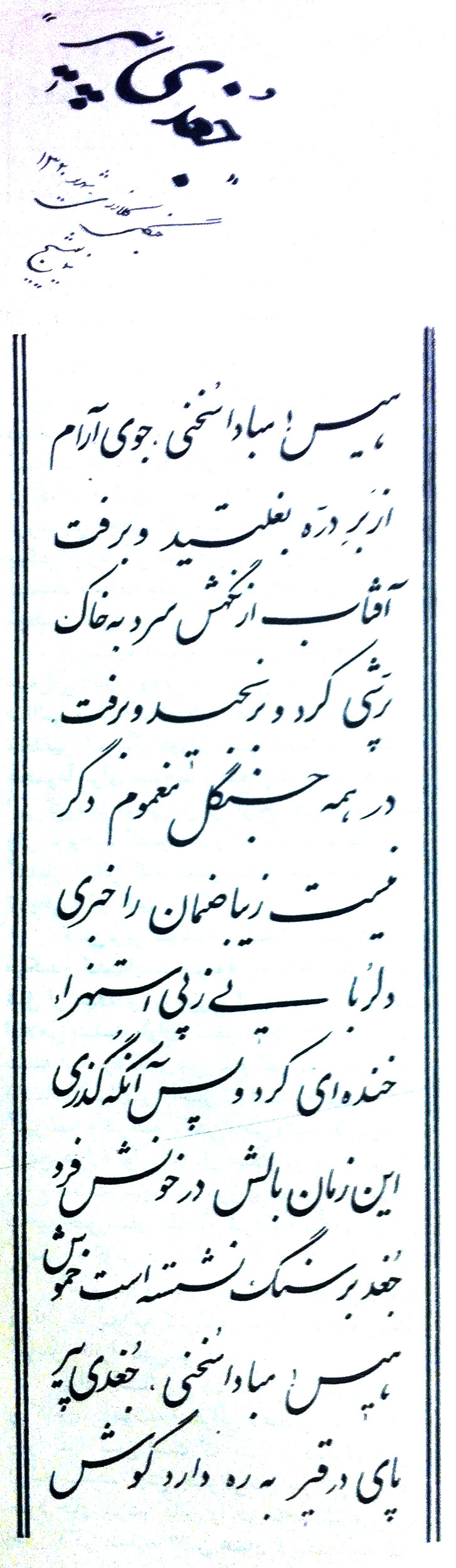 Poem: An Old Owl - نیما یوشیج - Nima Yooshij Calligraphy: Karim Molaverdikhani